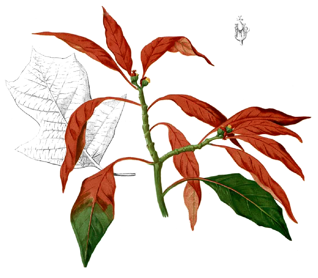 Plate from book